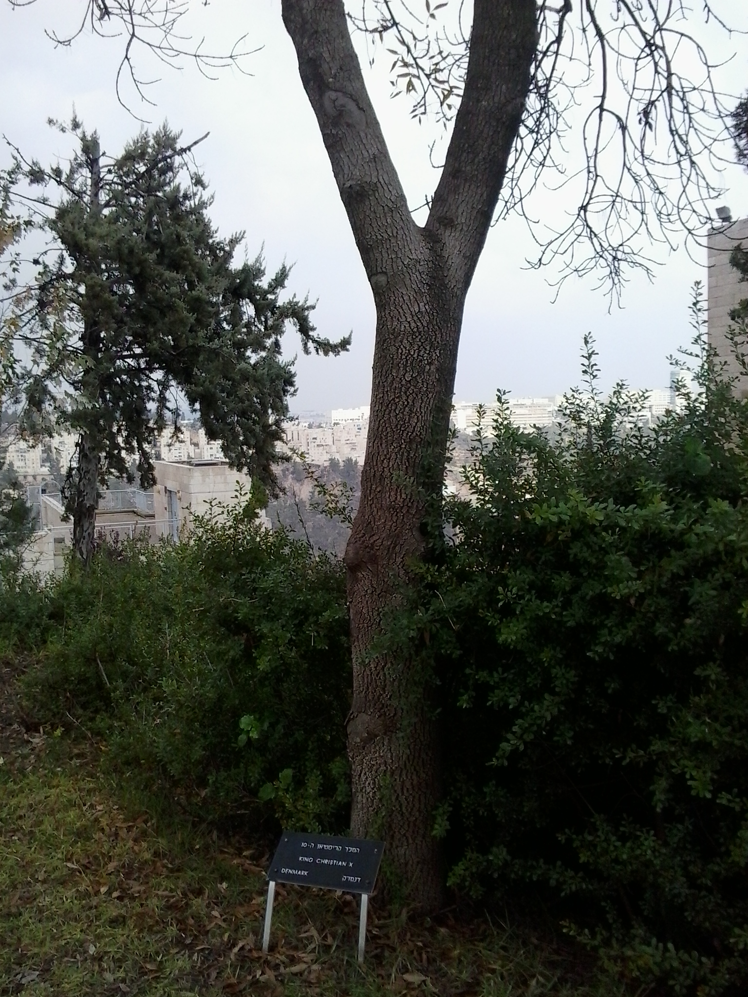 The tree planted at Yad Vashem honoring Christian the Xth of Denmark